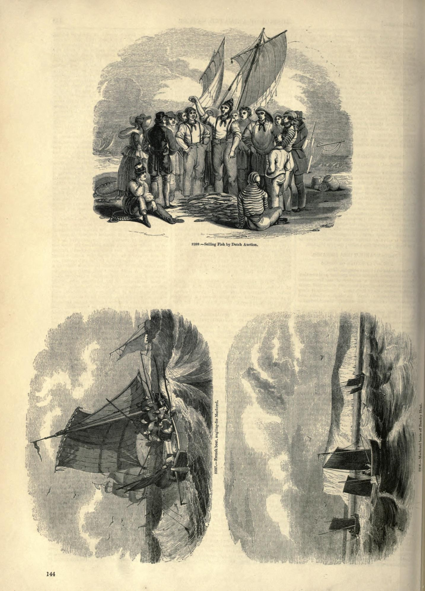 J 23S..— Selling F»h by Dutch Auction. 144